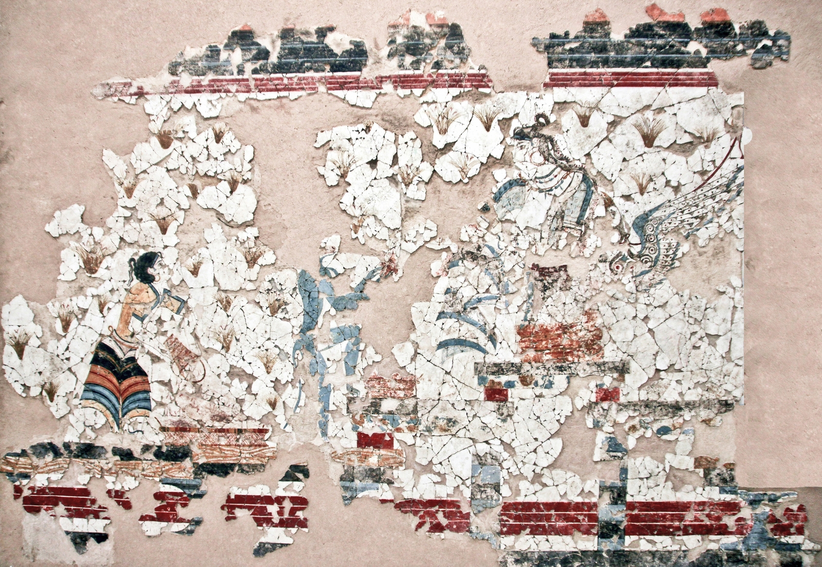 "Potnia Theron", Greek for "Mistress of Animals": Fresco from the bronze age excavation site of Akrotiri on the Greek island Santorini. This fresco is interpreted as showing a goddess on the right hand site, seated on a throne, protected by a griffin behind her, that she holds on a leash. To the left and in front of her a monkey depicted in blue offers a bowl to her with raised arms, while a young woman pours flowers of the saffron crocus in a large bowl. The fresco is part of a large wall painting, dubbed the "saffron gatherers", that covers two walls in an upper floor room of the building "Xeste 3". This building interpreted to be a place of initiation and rites of passage due to an adyton in the group floor and diverse frescoes all over the building.